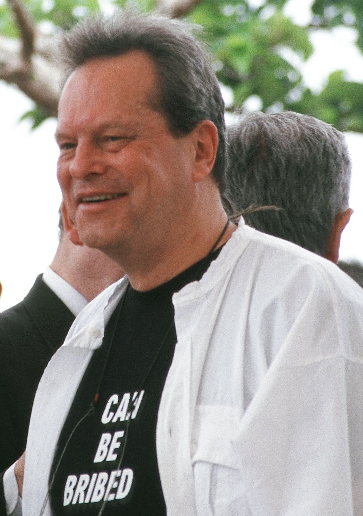 Terry Gilliam at Cannes in 2001. My own picture. Created by Rita Molnár 2001. Other version: Image:Terry Gilliam(CannesPhotoCall) (2).jpg